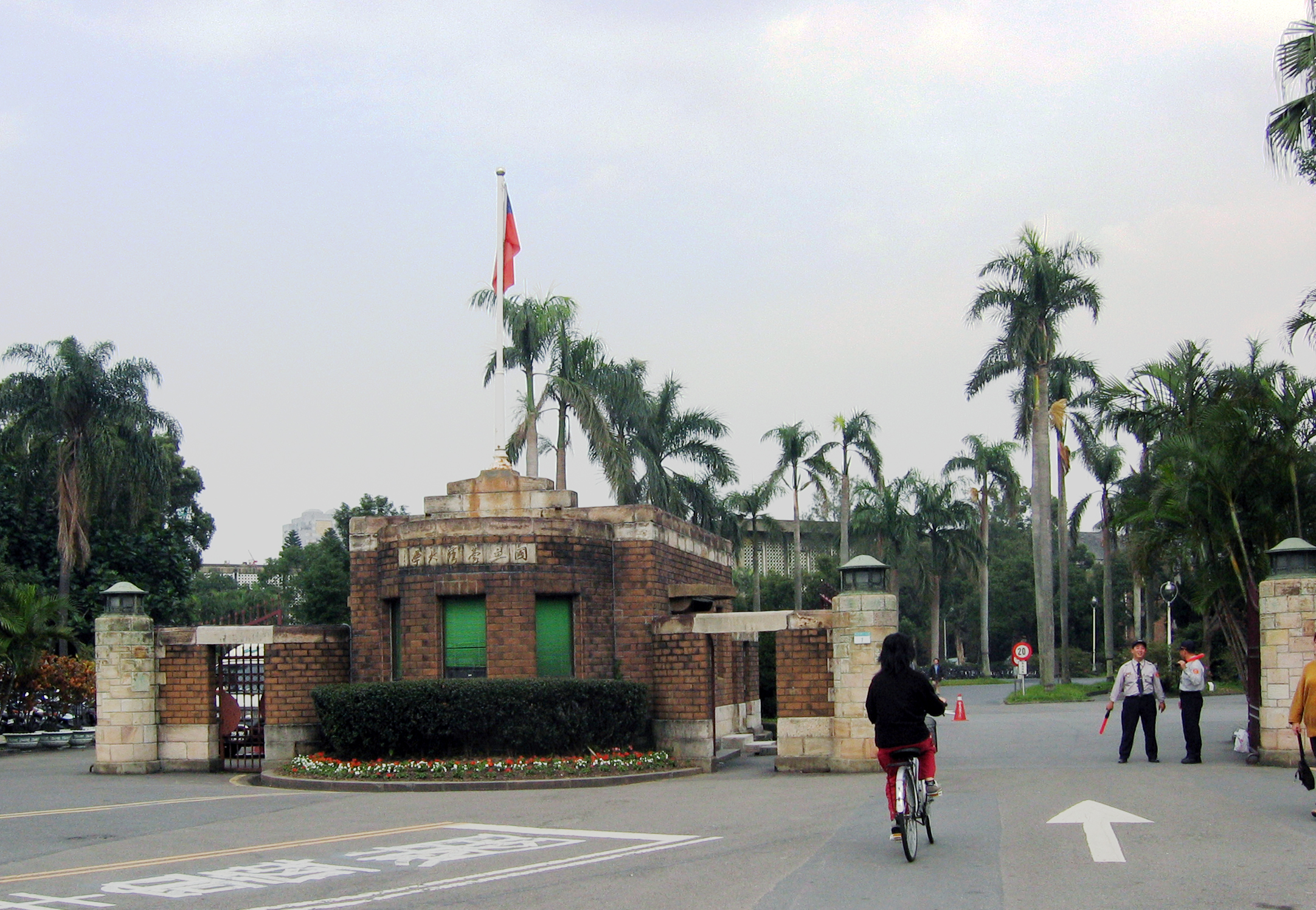 The main gate of National Taiwan University in 2005.